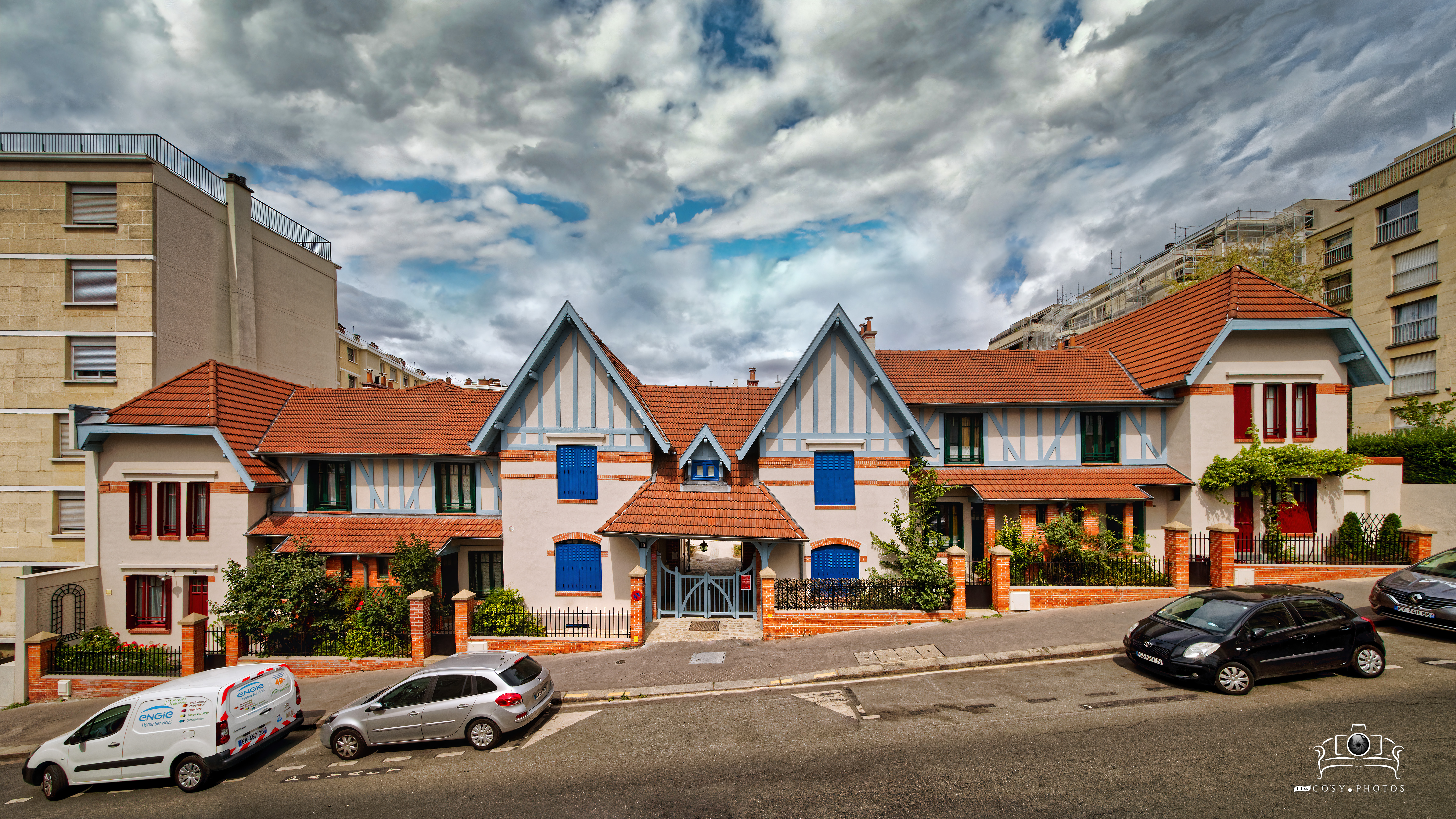 Paris 13 Butte-aux-Cailles